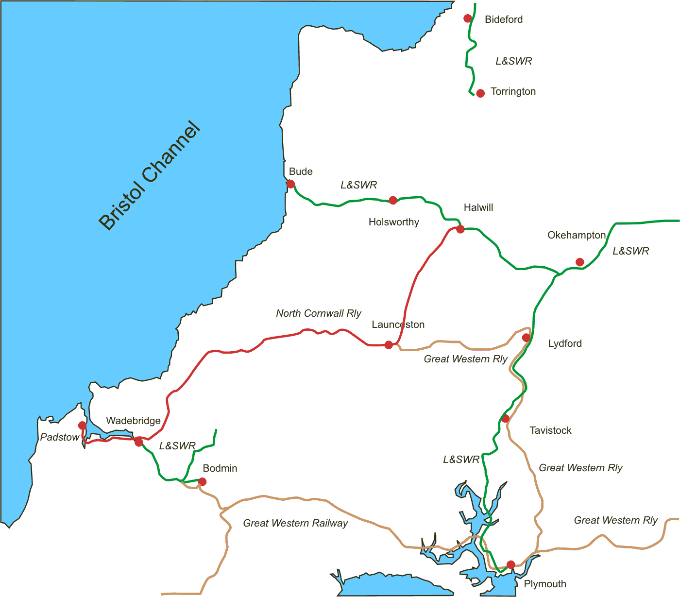 Map of North Cornwall Railway when completed